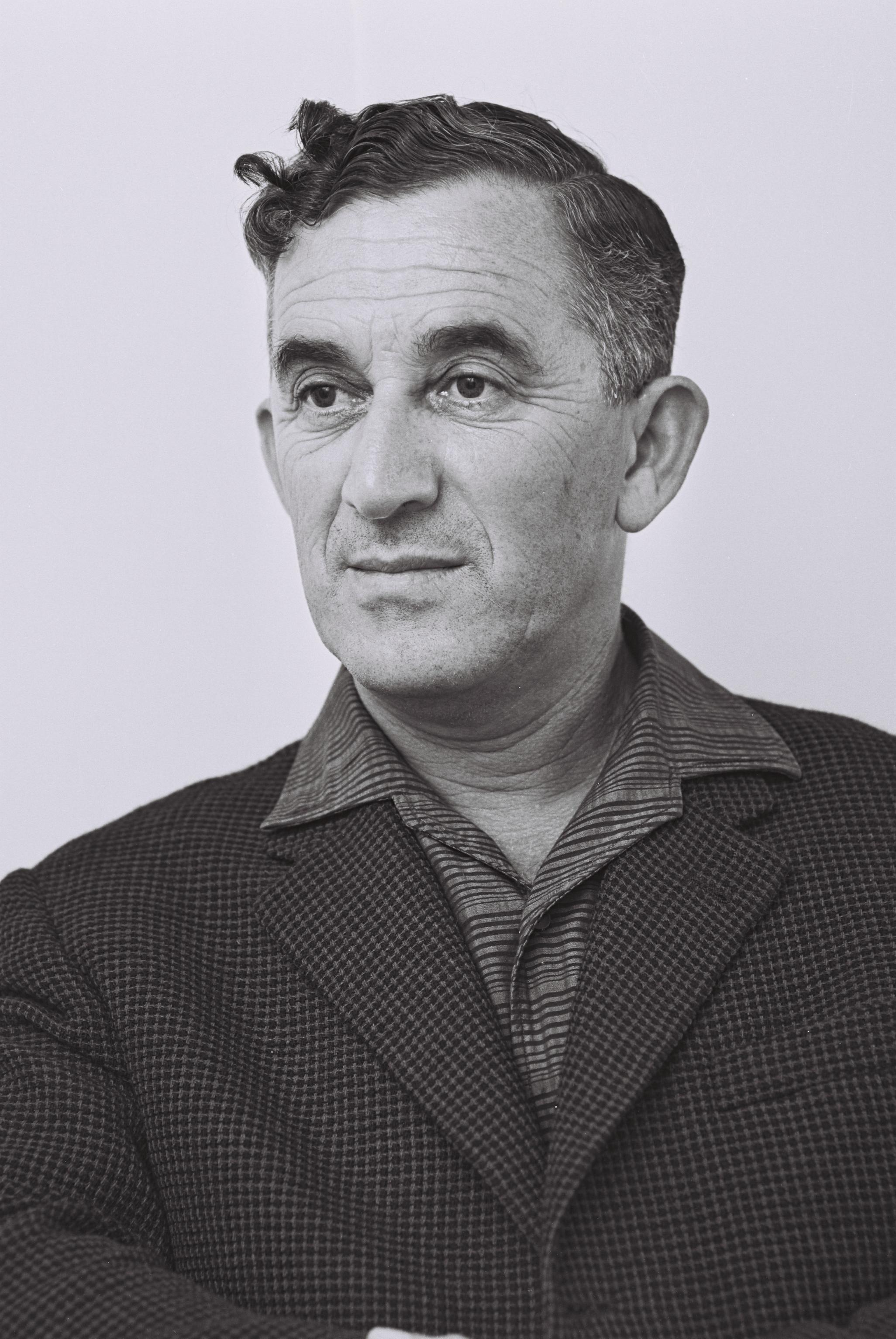 Mr. Nathan Peled member of Knesset, Mapam party.